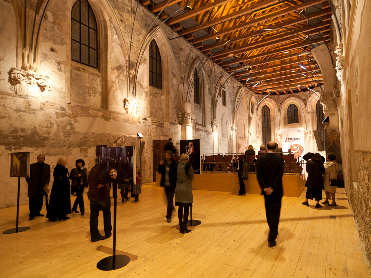 Prague crossroads, the international spiritual center in the st. Anne's church.